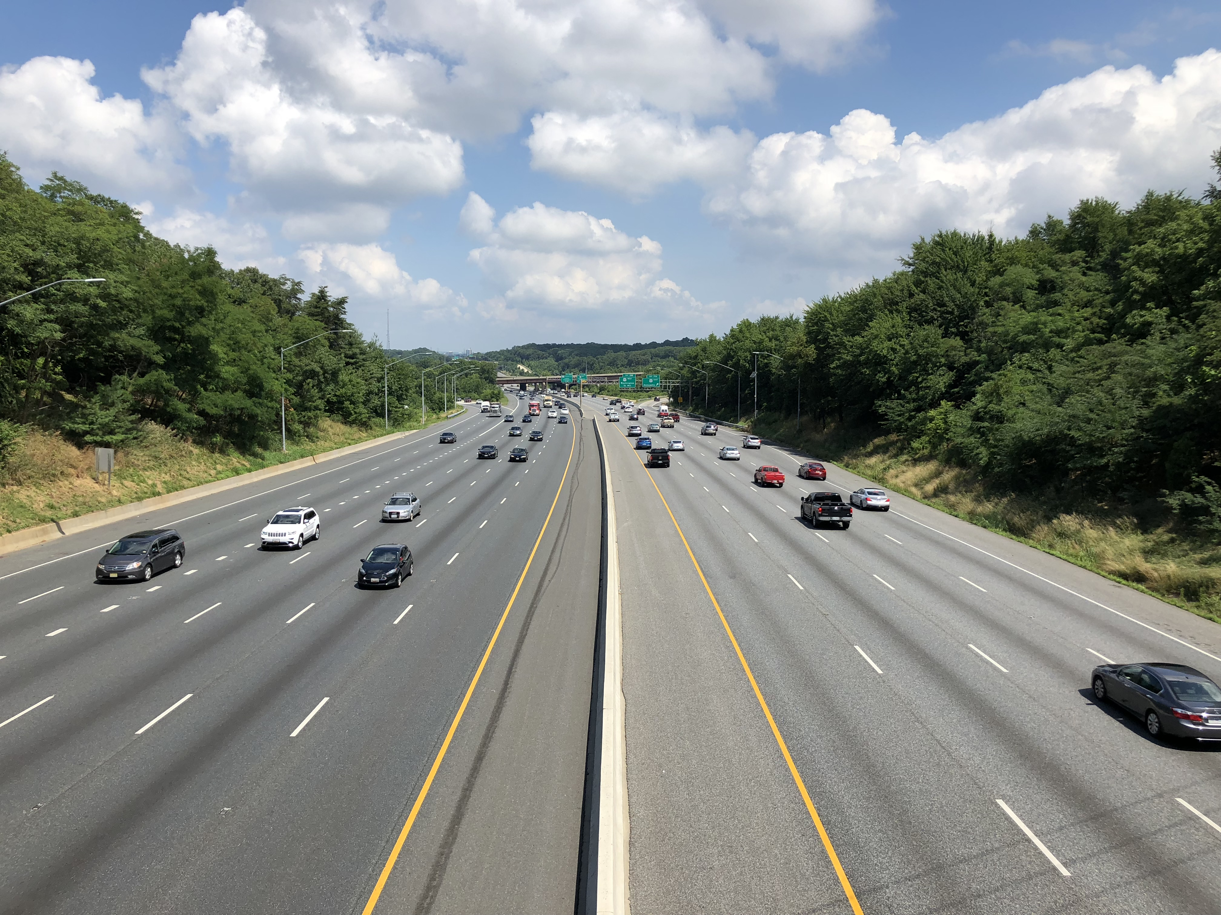 View north along Interstate 95 and Interstate 495 (Capital Beltway) from the overpass for Maryland State Route 704 (Martin Luther King, Junior Highway) in Carsondale, Prince George's County, Maryland